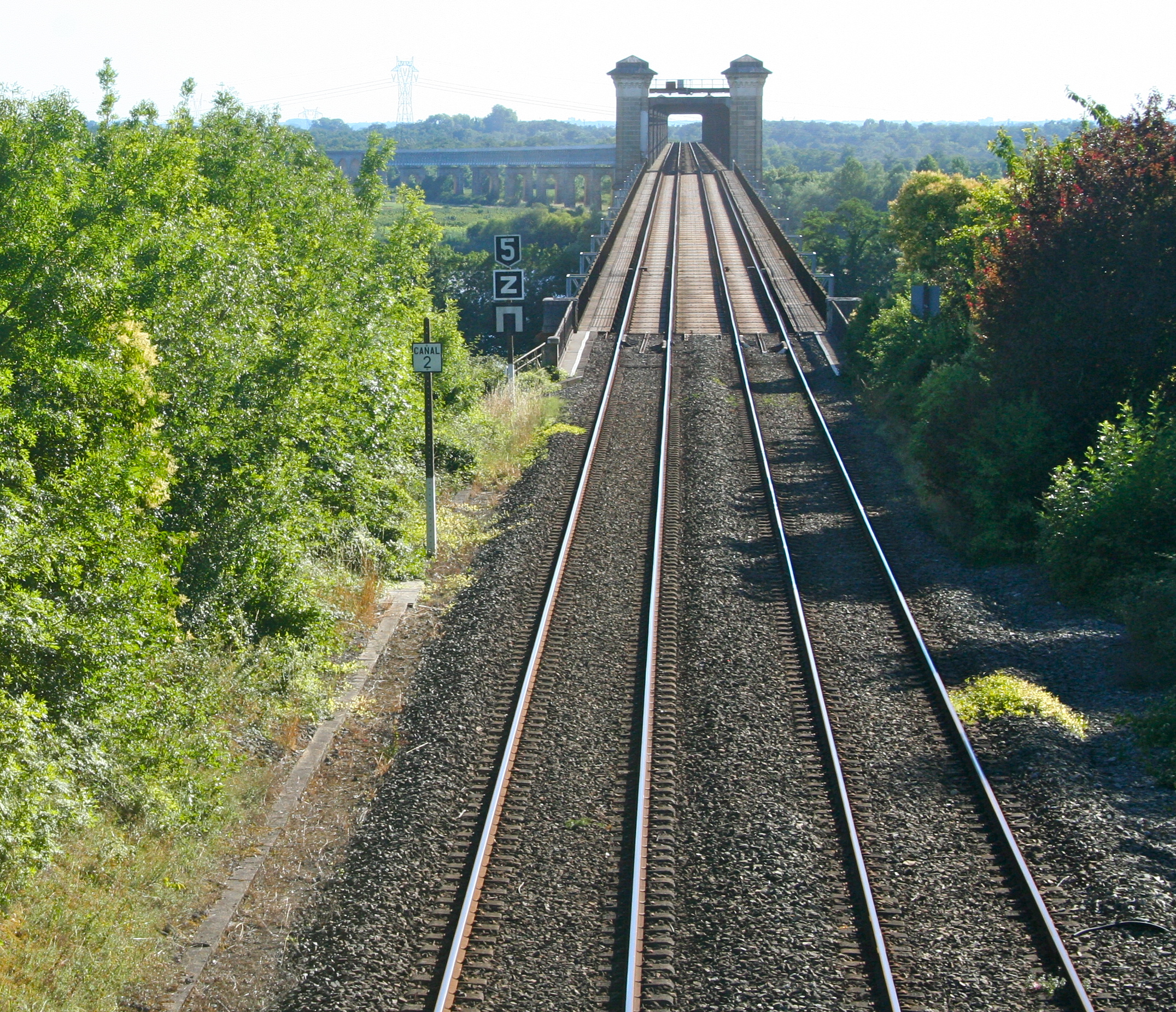 View of the rail bridge from a small bridge.